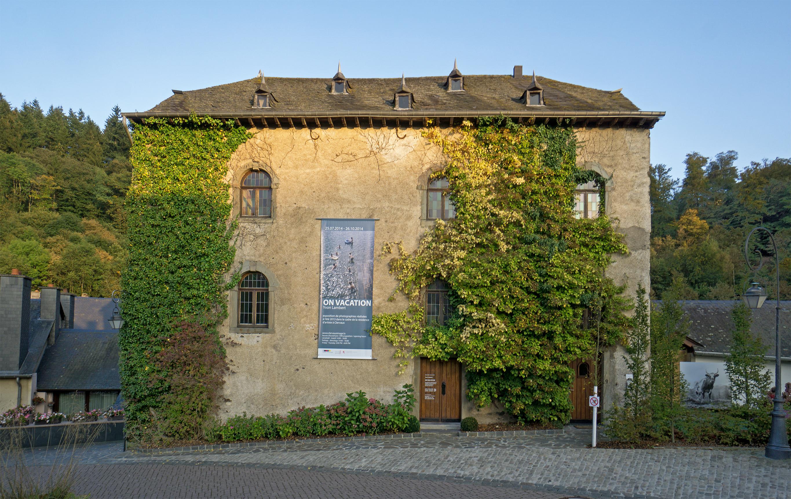 Former brewery De Lannoy in Clervaux, 9 Montée du Château